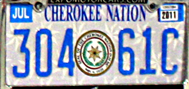 Ferrari 360 Modena from Cherokee Nation.